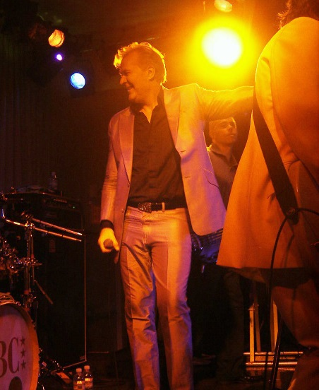 Martin Fry